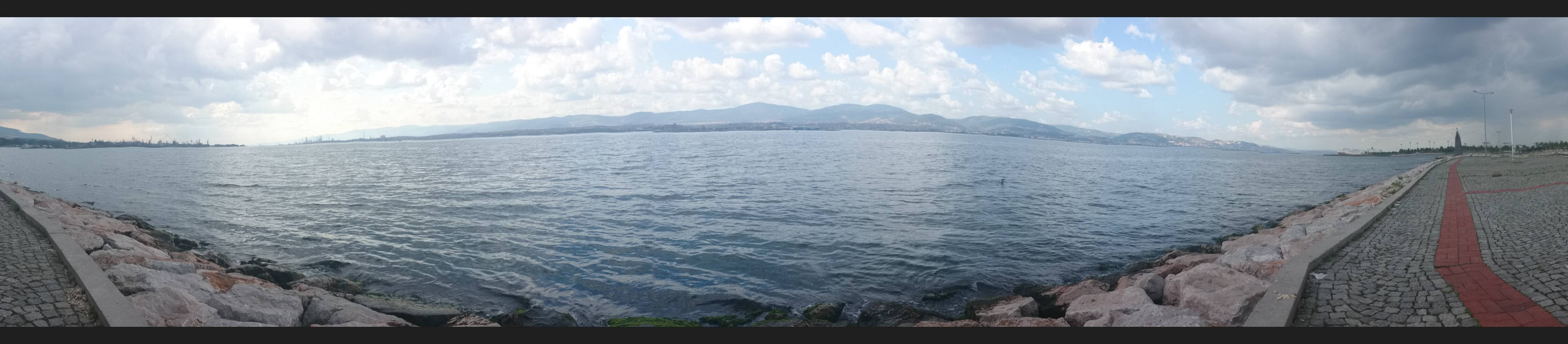 Golcuk coast